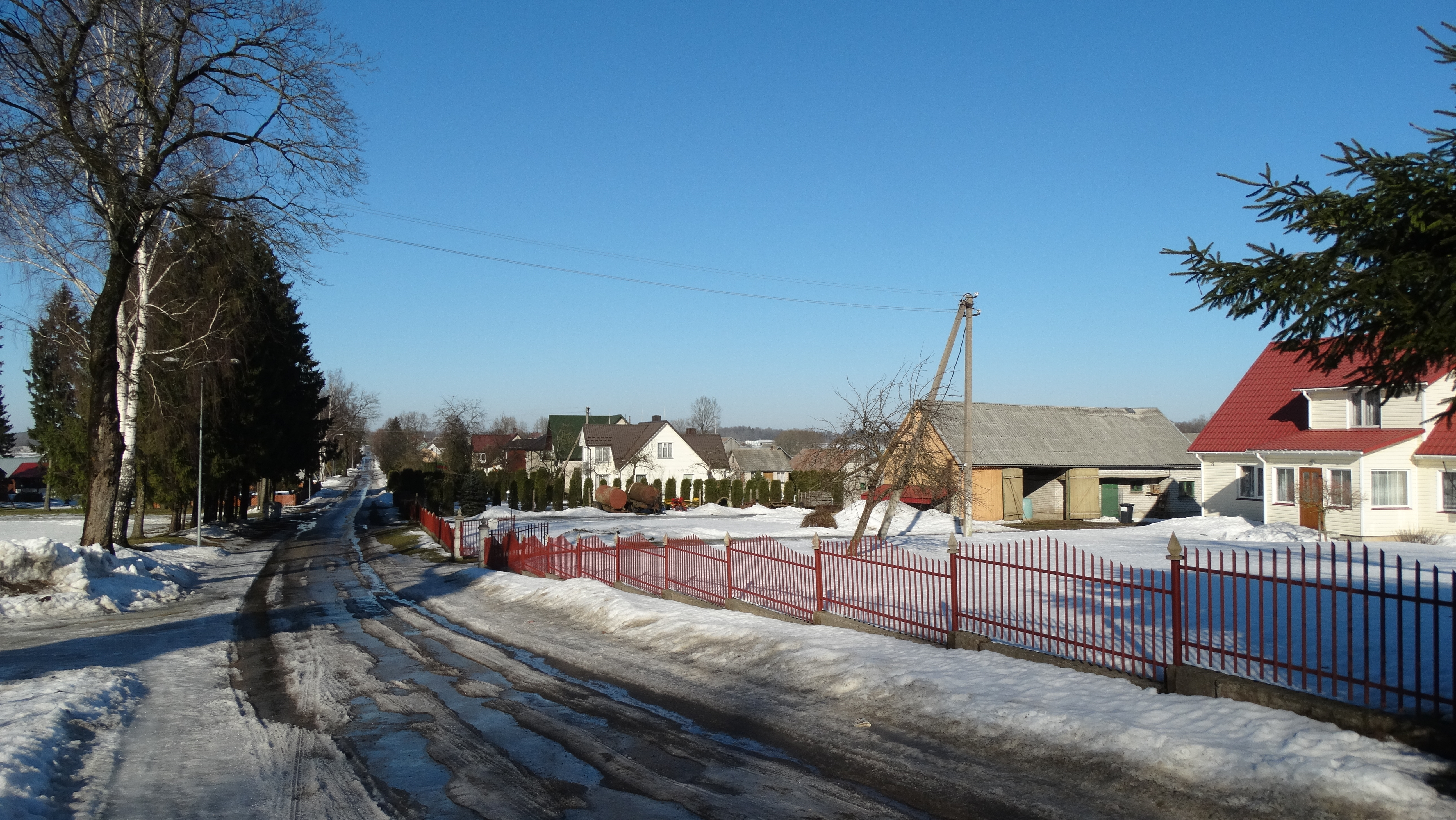 Street, Tūbinės I, Šilalė district, Lithuania